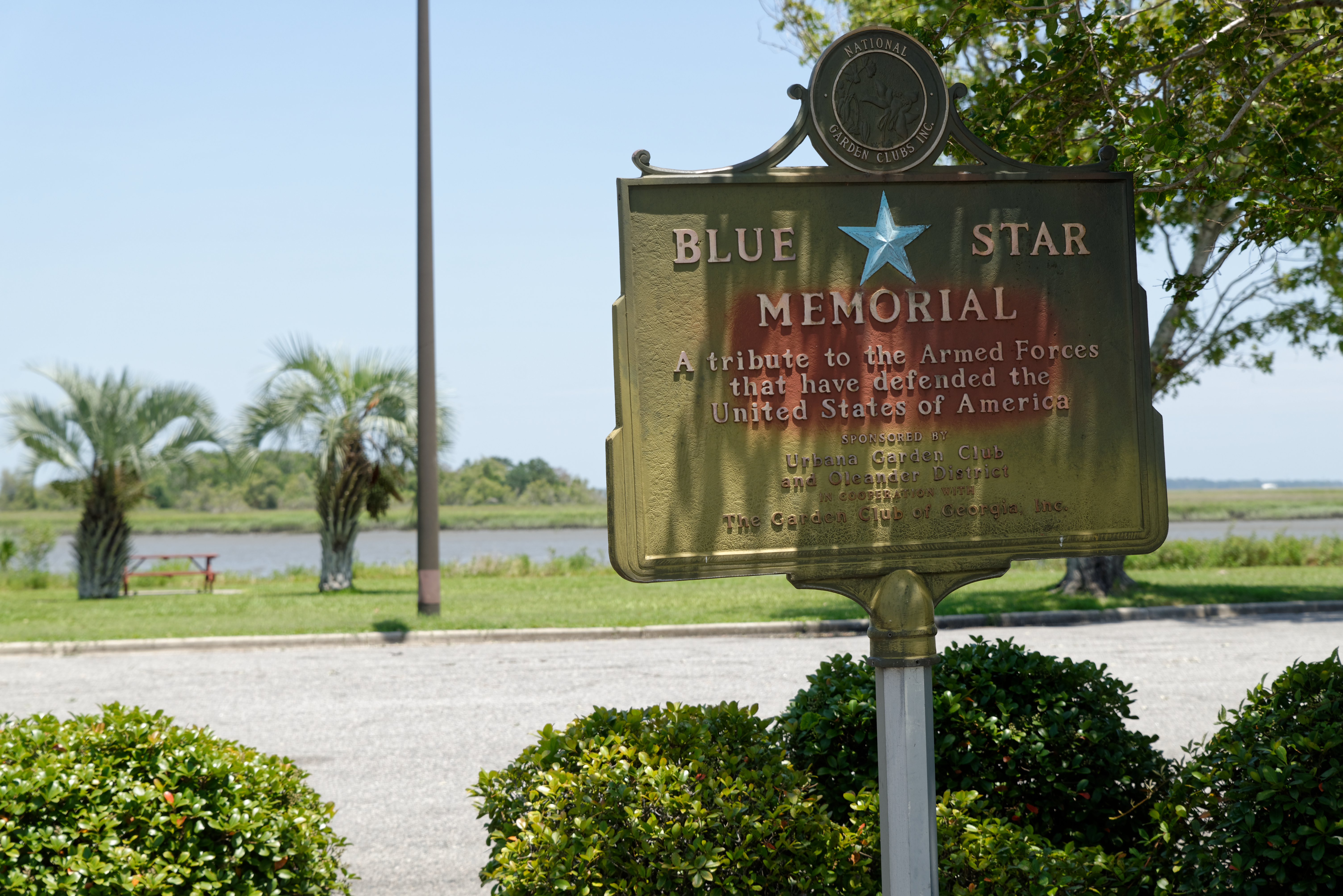 Blue Star Highway marker, Brunswick, Georgia, U.S. Marshes of Glynn Overlook Park.